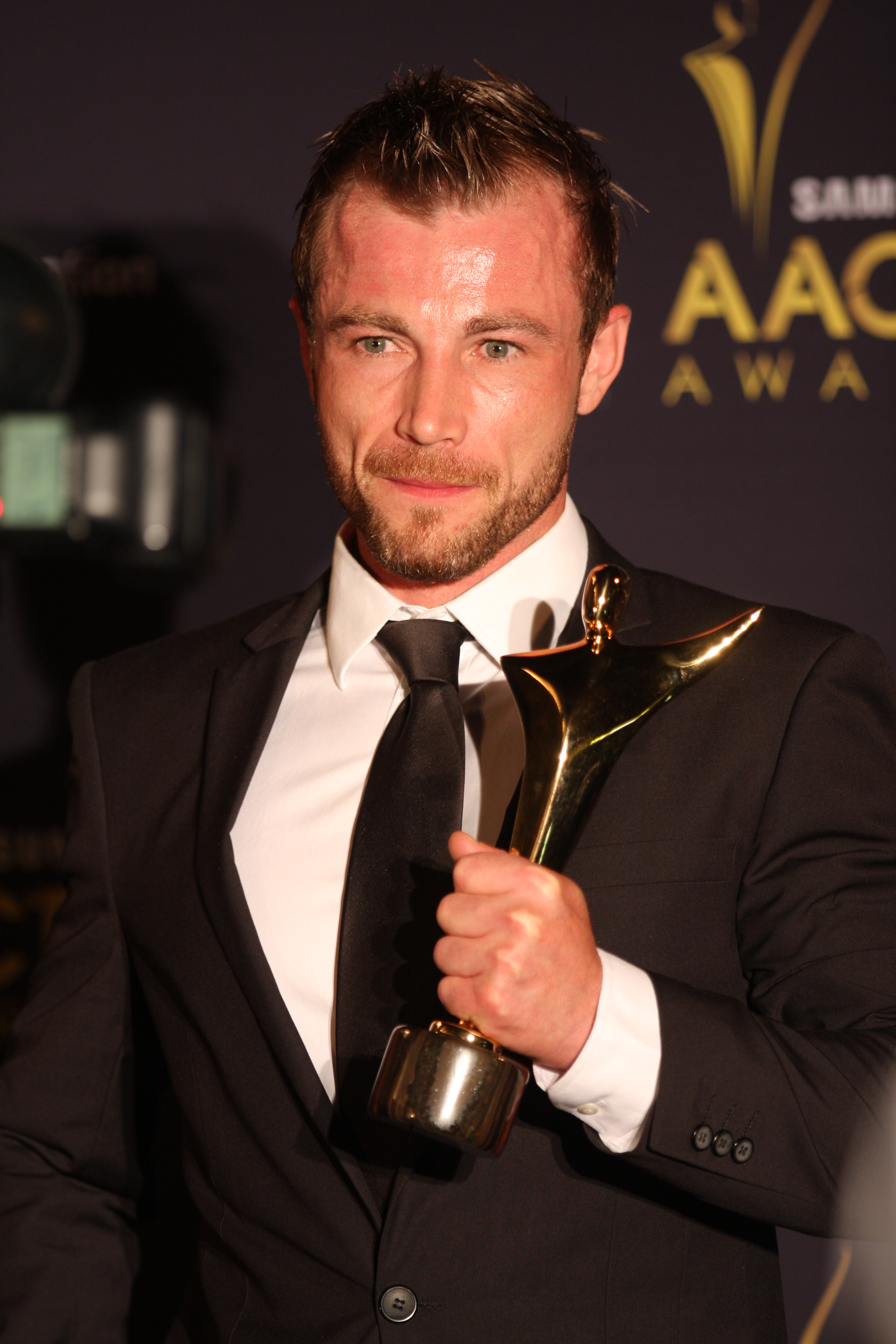 Richard Cawthorne 2012 AACTA Best Guest or Supporting Actor in the Television Drama Killing Time.